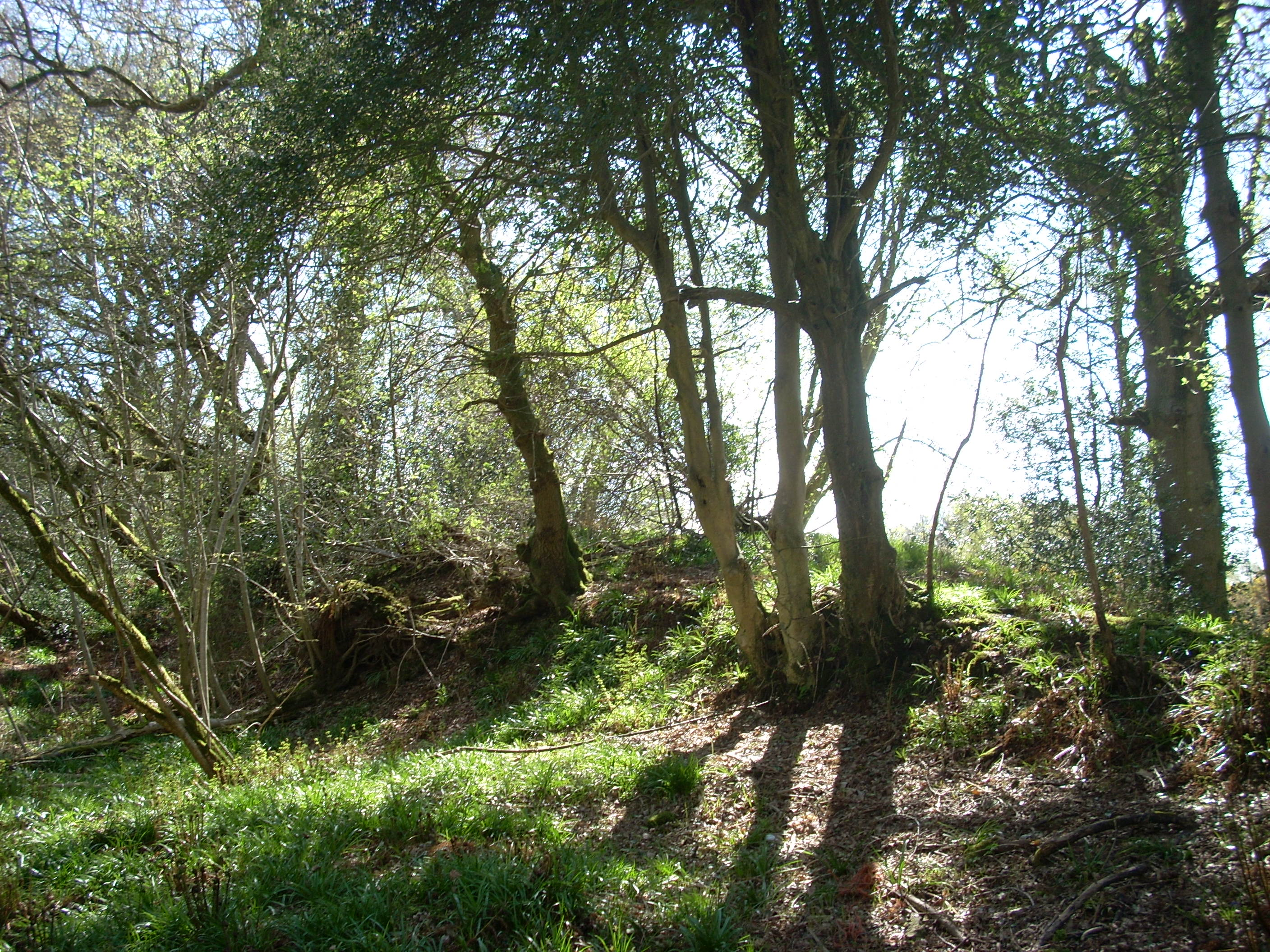 Iron Age linear earthwork consisting of a ditch and bank, associated with the nearby Castle Rings about 150m east. Wiltshire, UK.